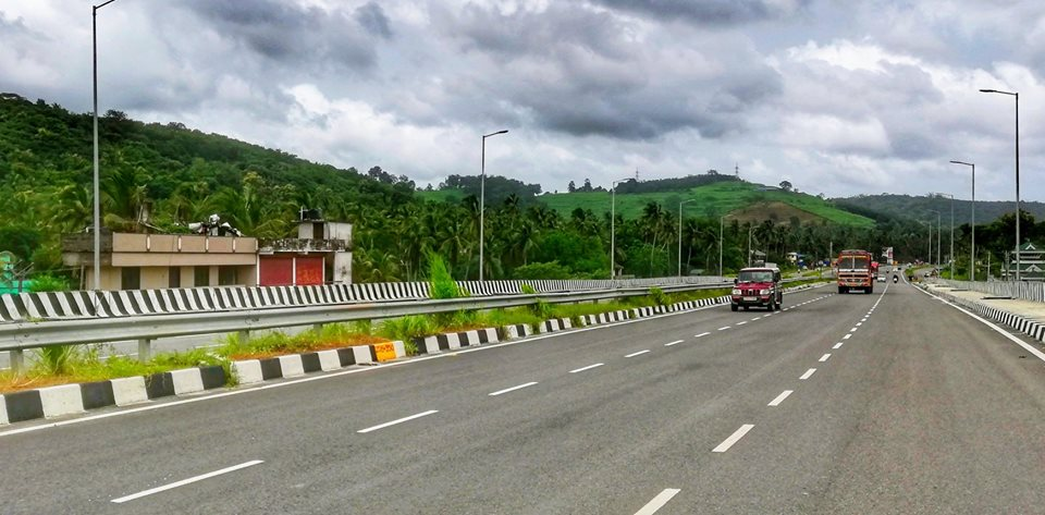 Thrissur to Wadakkanchery six lane road